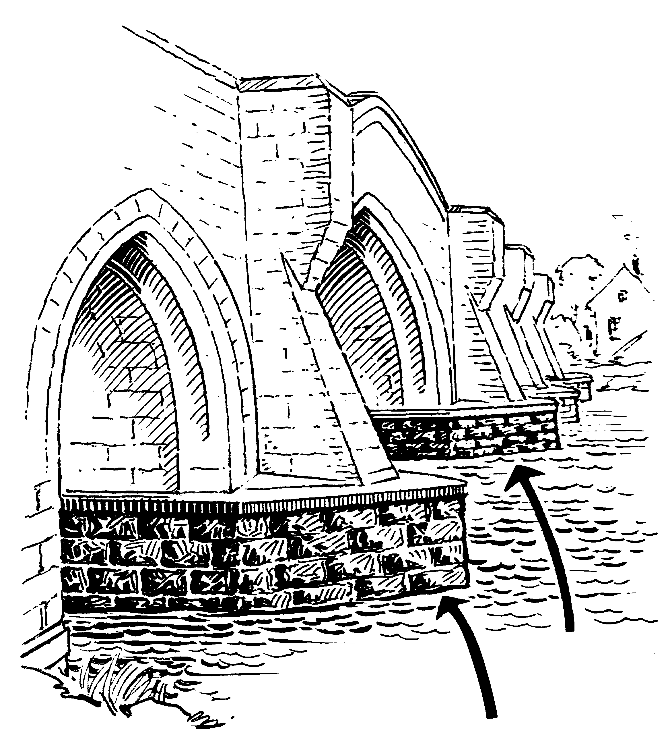 Line art drawing of abutments on a bridge.